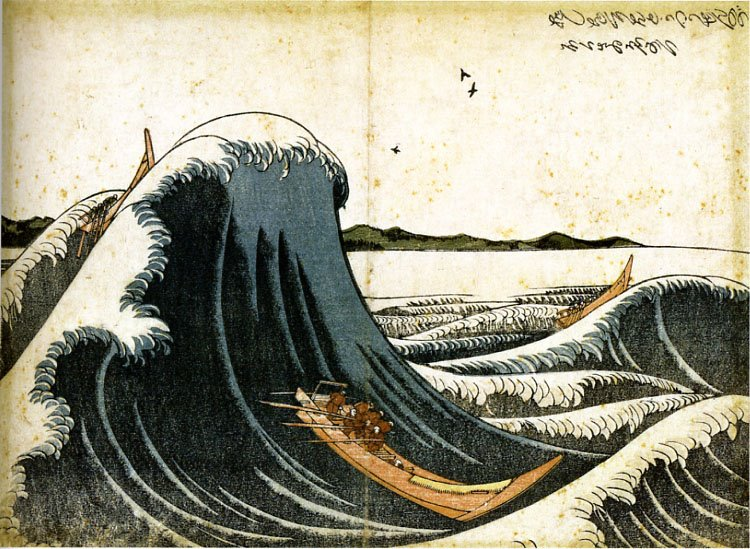 Oshiokuri Hato Tsūsen no Zu (Fast Cargo Boat Battling The Waves)